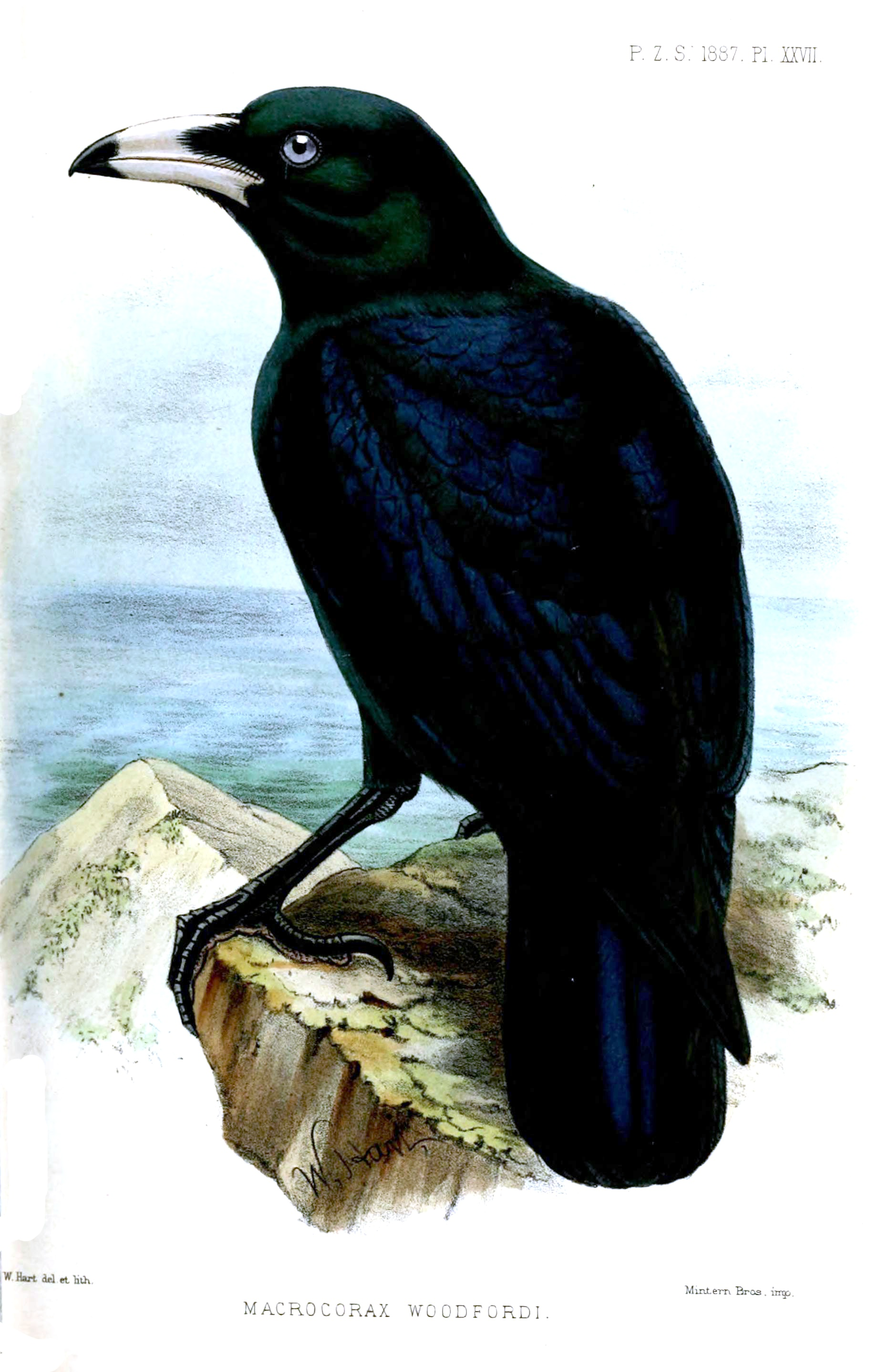 Macrocorax woodfordi (= Corvus woodfordi).